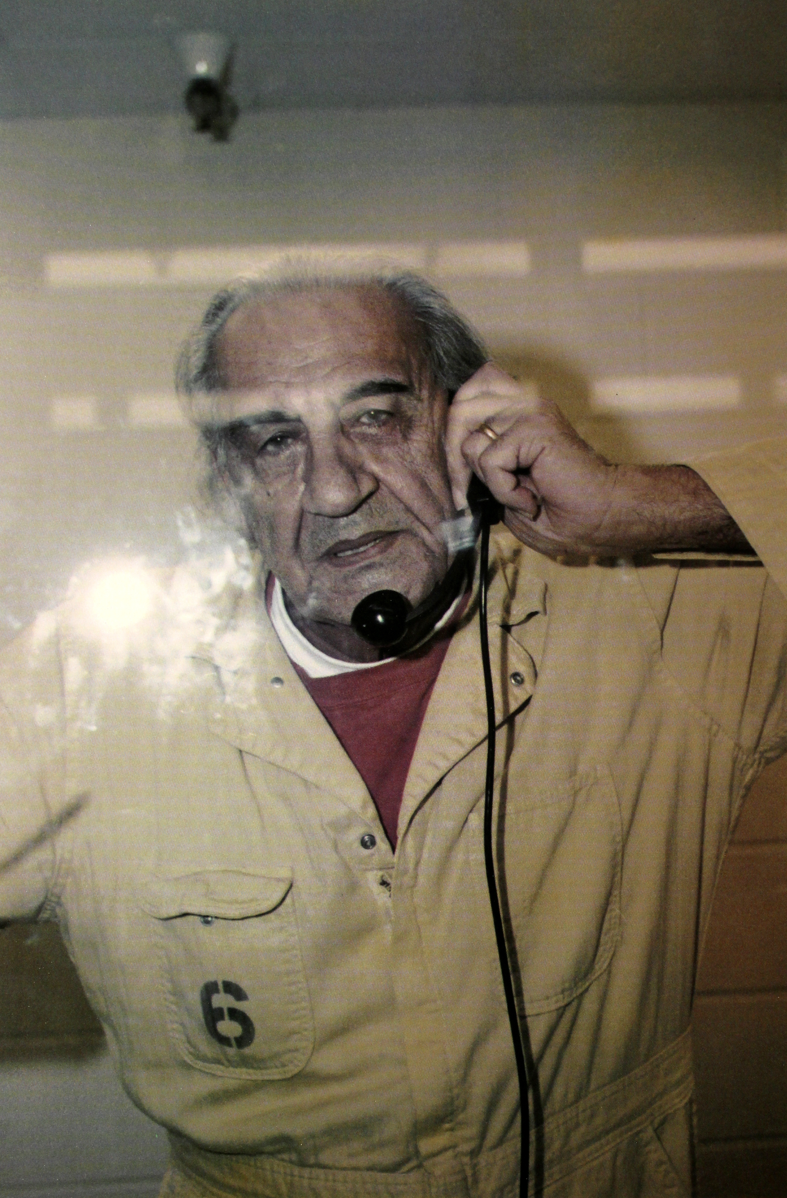 The making of this file was supported by Wikimedia Armenia.